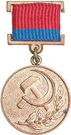 Badge of the Laureate of the State Prize of the Ukrainian SSR